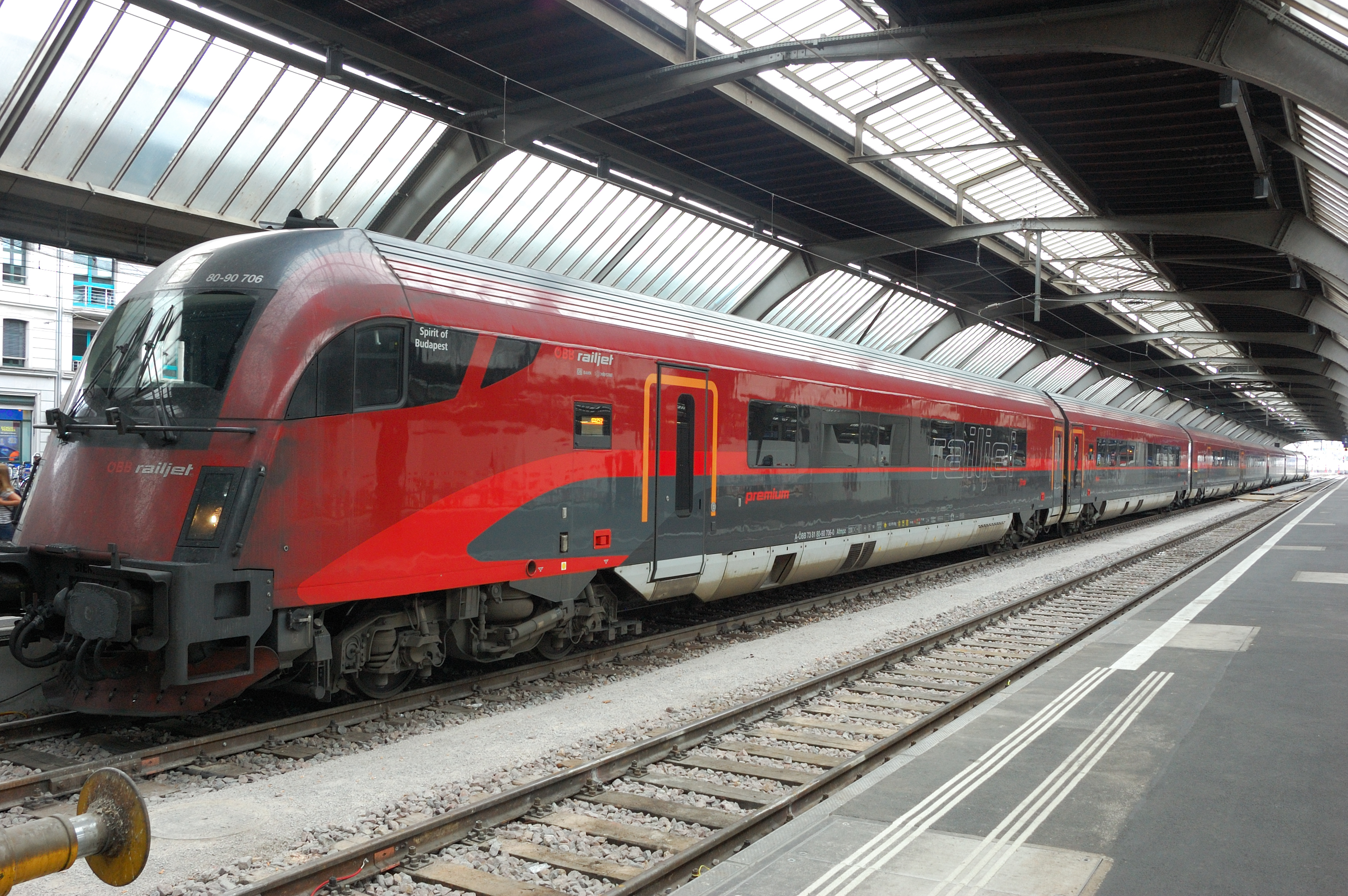 Spirit of Budapest